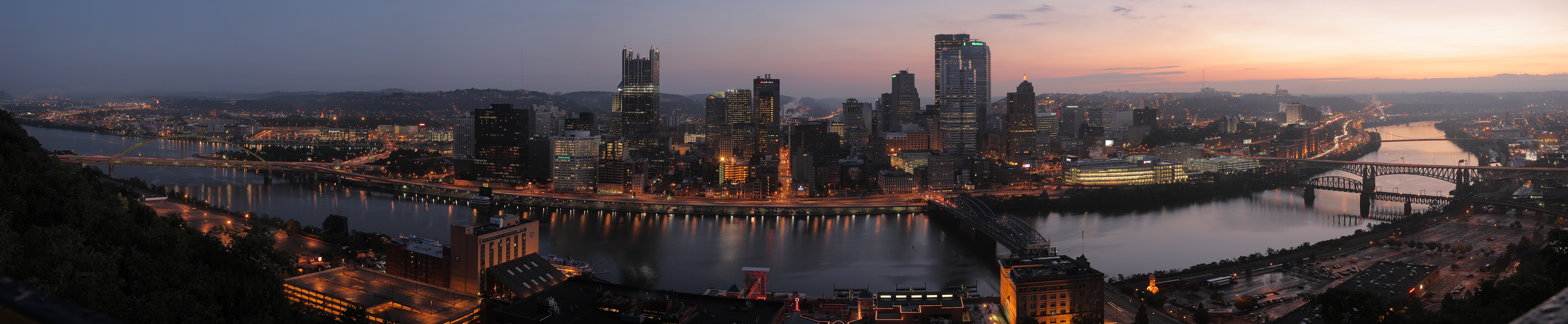 A panorama of Pittsburgh, Pennsylvania from Washington Heights. 8 stitched images. Original is 15000x4000